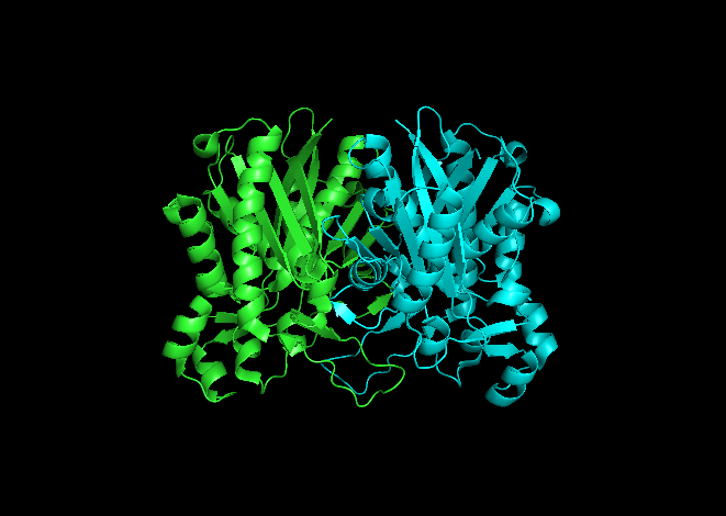 Shows the dimer interface of beta-ketoacyl-ACP synthase as well as the beta-pleated sheets surrounded by alpha helices.